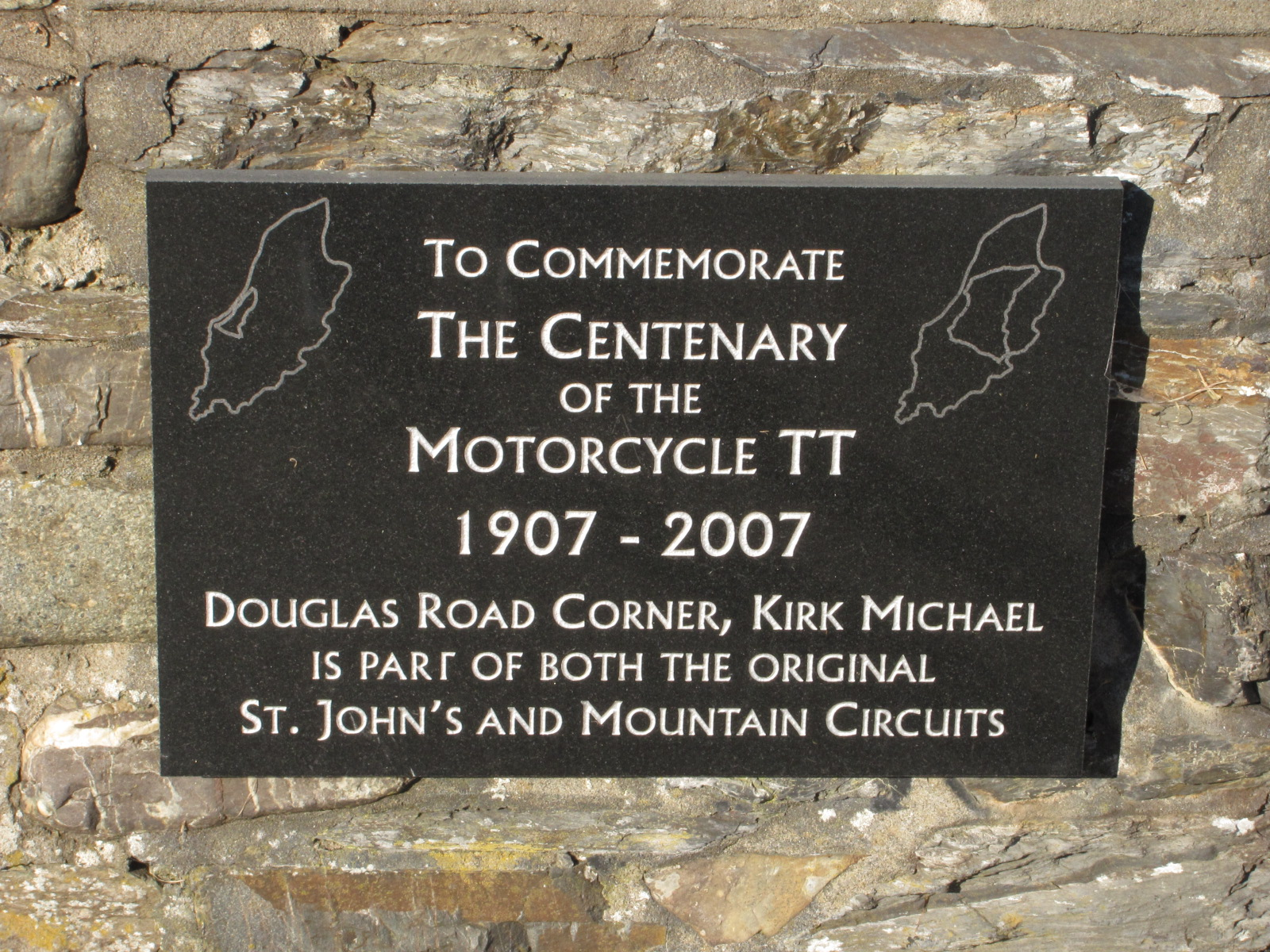 Douglas Road Corner